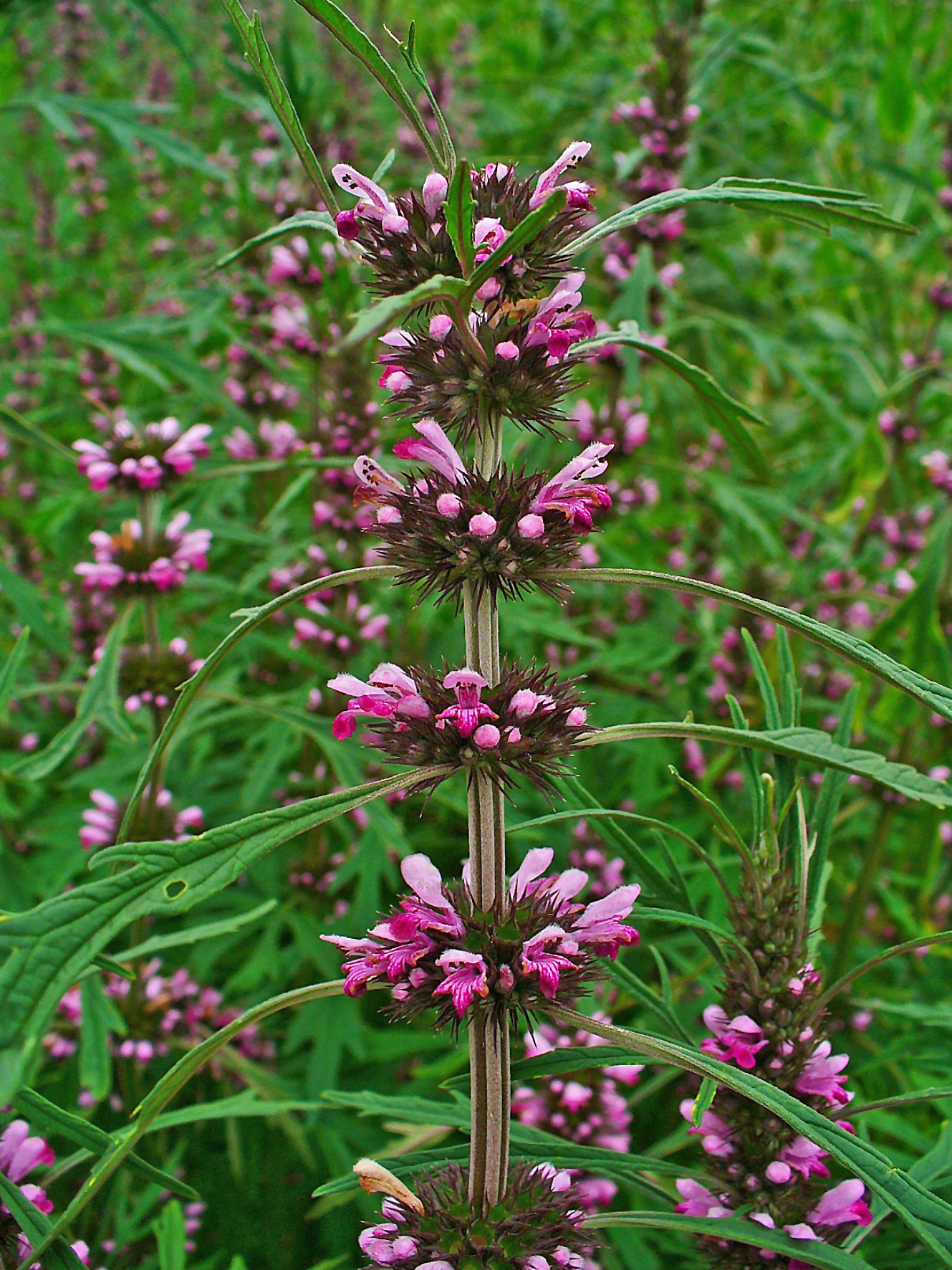 Leonurus sibiricus, Lamiaceae, Siberian Motherwort, inflorescences. The plant is used in homeopathy as remedy: Leonurus sibiricus (Leon-s.)